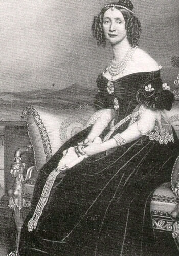 Maria Anna of Bavaria, Queen of Saxony (1805-1877)